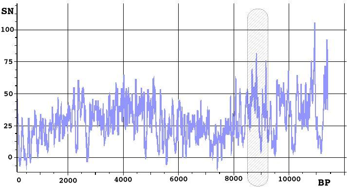 11,400 year sunspot reconstruction. 1950 is year 0 on left side. SN=sunspot number. BP=years before present. Hatching marks the previous period of high activity more than 8,000 years ago which is similar to present level of activity. This period corresponds with the Southern Hemisphere warming associated with the Holocene Climatic Optimum. 2005. 11,000 Year Sunspot Number Reconstruction. IGBP PAGES/World Data Center for Paleoclimatology Data Contribution Series #2005-015. NOAA/NGDC Paleoclimatology Program, Boulder CO, USA. Error: journal= not stated.